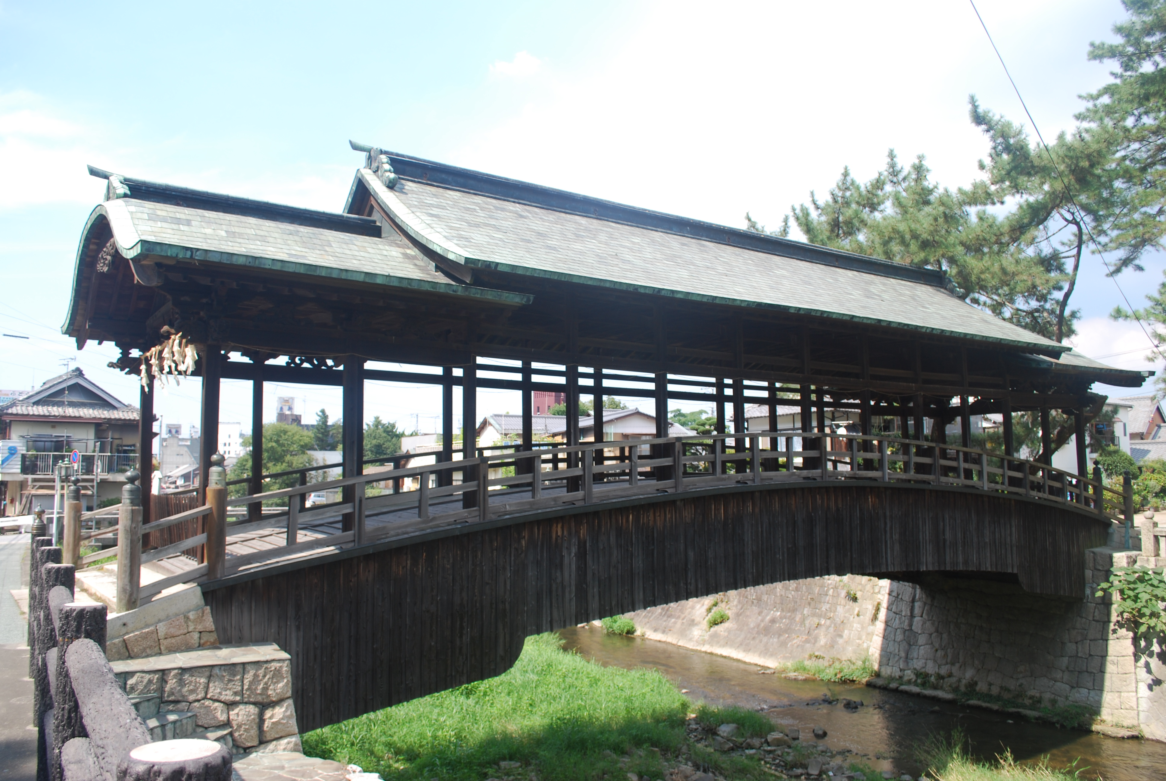 Saya-bridge,Kotohira-town,Japan